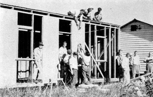 "On the third day after the fire, the new Himmelreich house is already under roof, and is being walled. Maffra Rotarians and other volunteers wield the tools, as the three-bedroom cottage nears completion for occupancy". From an article about the destruction by fire of a house owned by Ukrainian immigrant Konstantyn Himmelreich and the construction of a new one by members of the local Rotary branch.